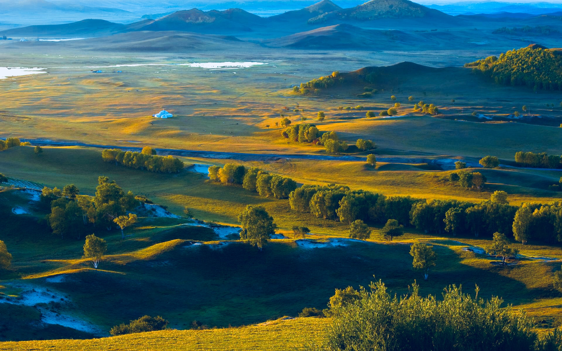 feng ning ba shang meadow